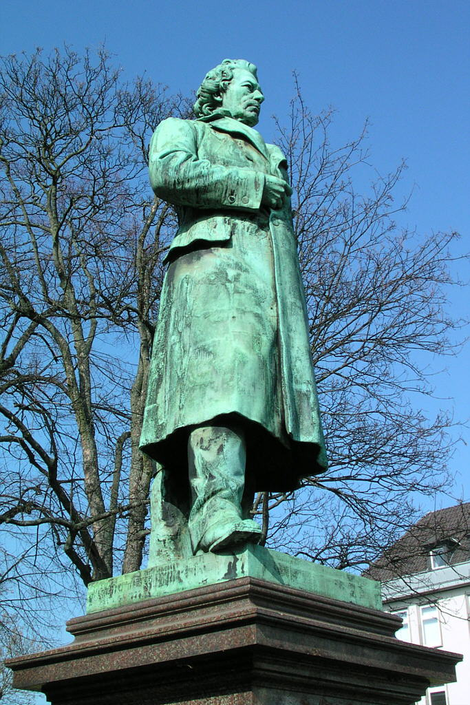 Aachen, memorial for David Hansemann, sculpted by Heinz Hoffmeister 1888